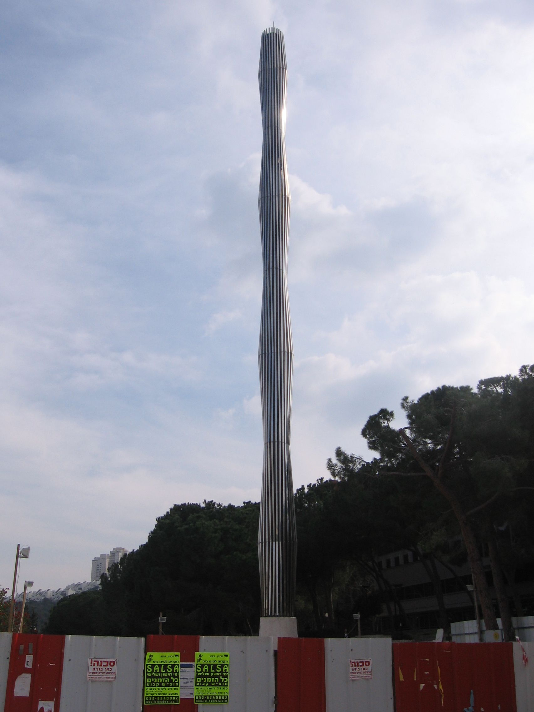 The Technion (Israel institute of technology) Obelisk, designed by Spanish architect Santiago Calatrava.